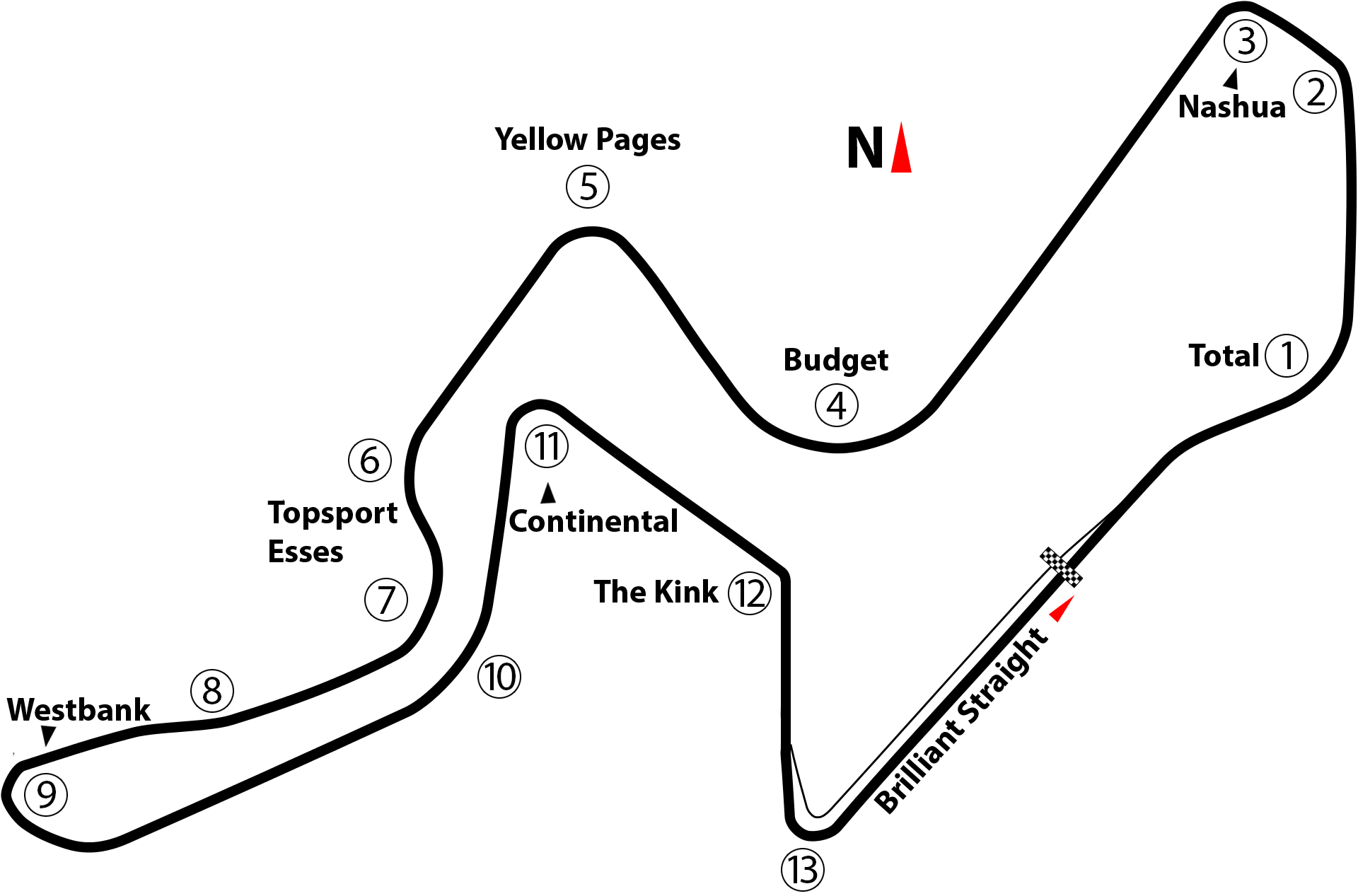 Kyalami Grand Prix Circuit Layout used from 1992-1993 and from 2009-2015.